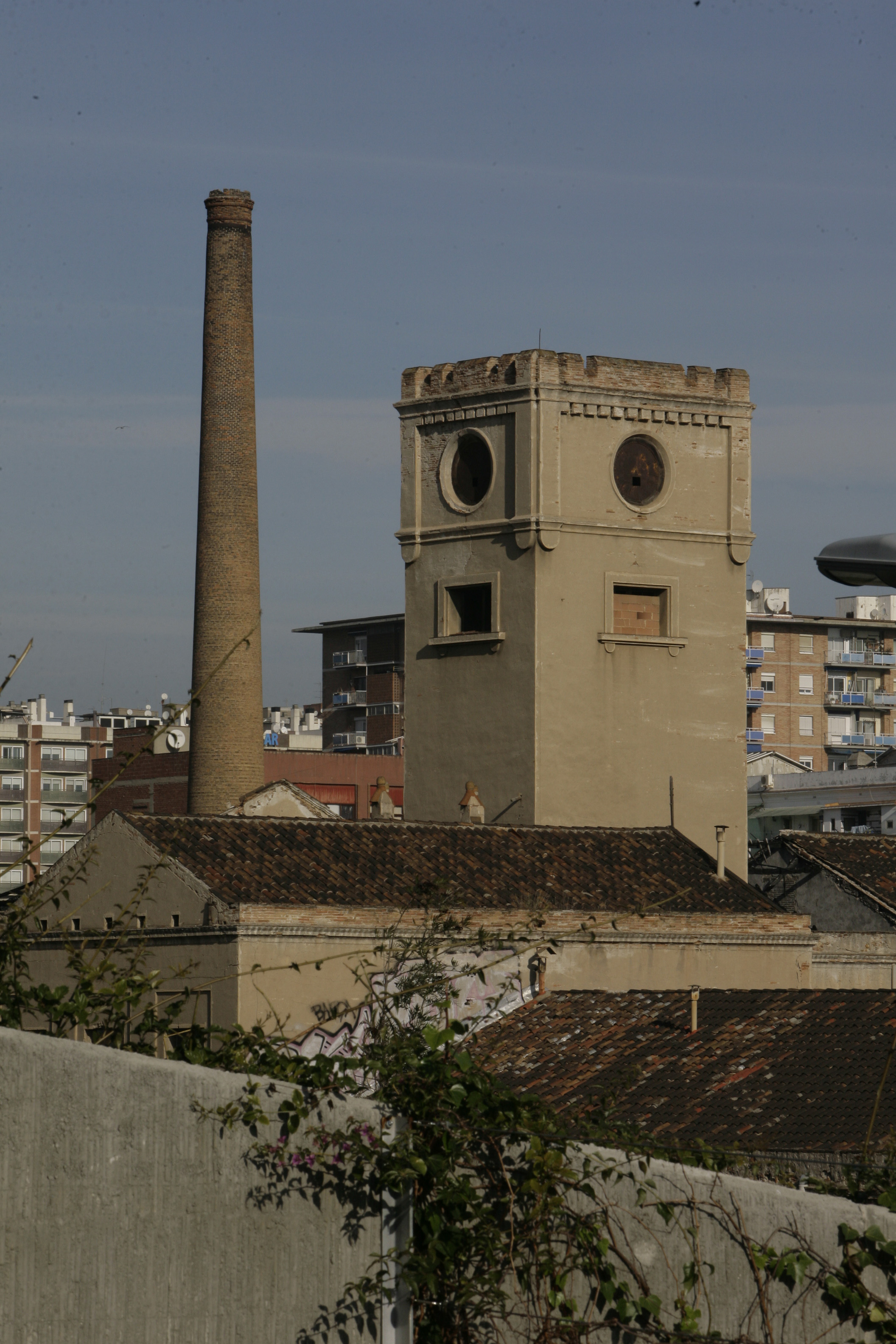 Can Ricart, fàbrica on estava previst ubicar-hi el projecte Linguamón - Casa de les Llengües